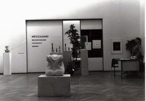 1 Exhibition of works by Abel Ramírez Águilar at the Pulcri Studio in The Hague, Holland